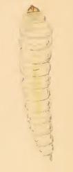 Stainton’s Natural History of the Tineina (1855–1873): Dyseriocrania subpurpurella